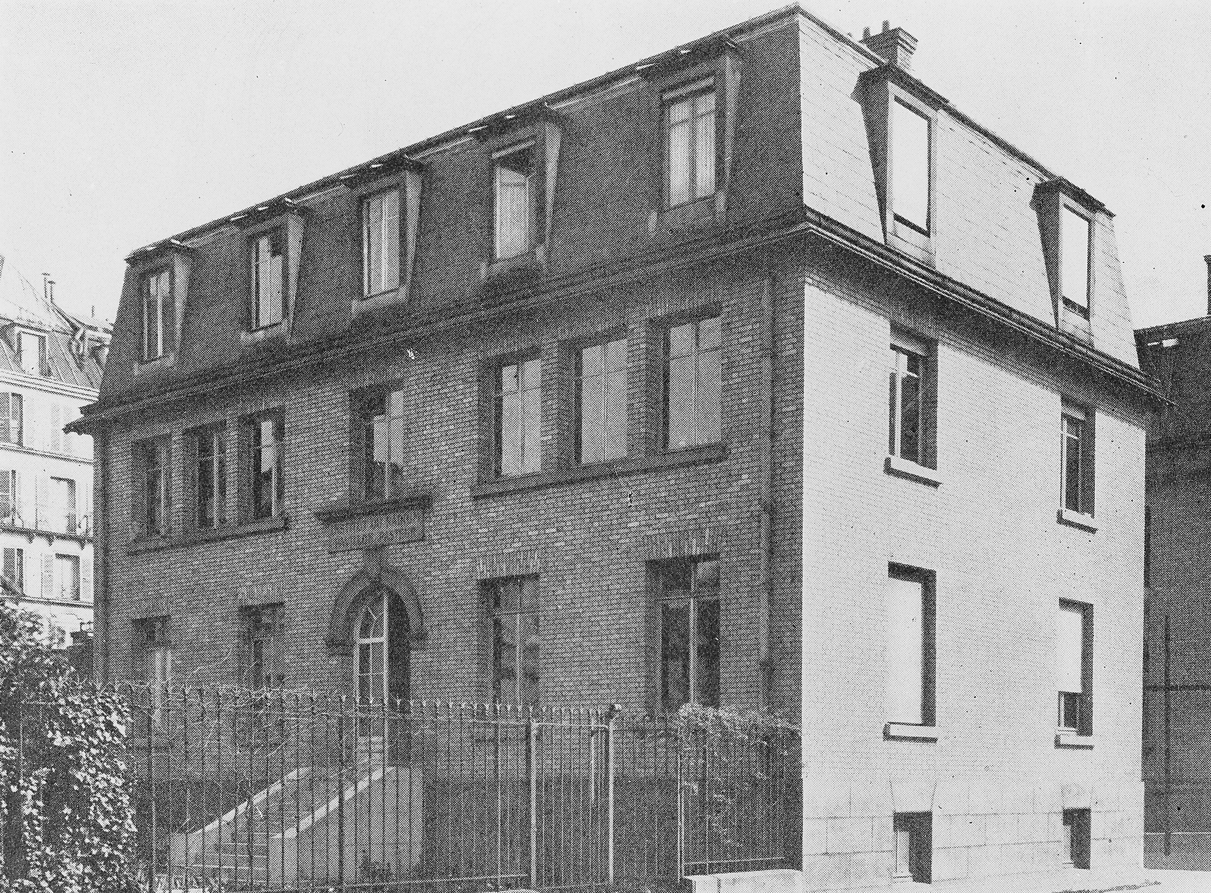 The Radium Institute, Paris, showing the laboratory of Radiophysiology (Pasteur Pavilion).